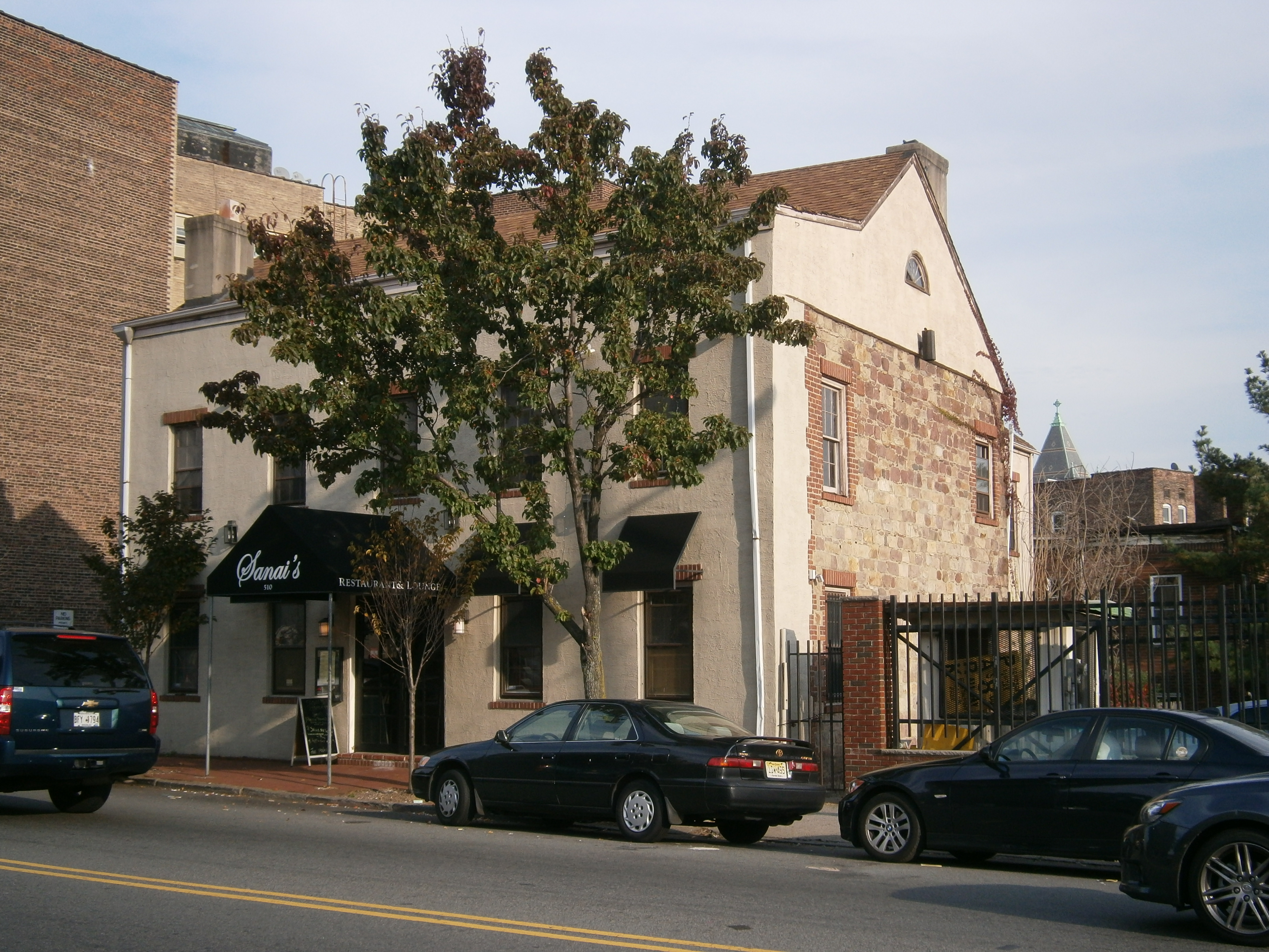 The Newkirk House, circa 1690, buildt as part of Bergen Dutch colony, is oldest extant building in Hudson County